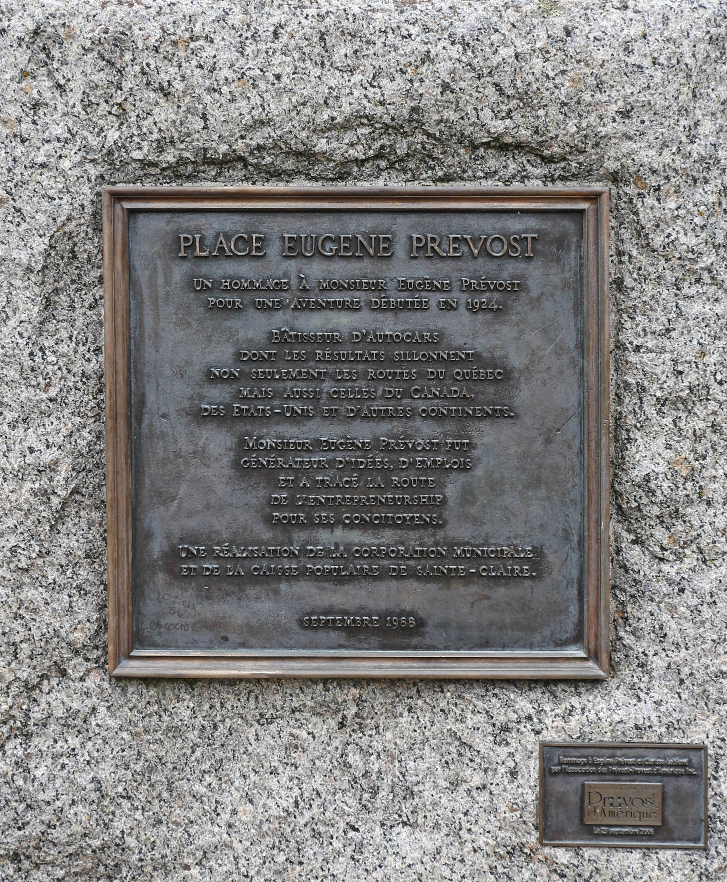 Plaque of Place Eugène Prévost, Sainte-Claire, Québec, Canada